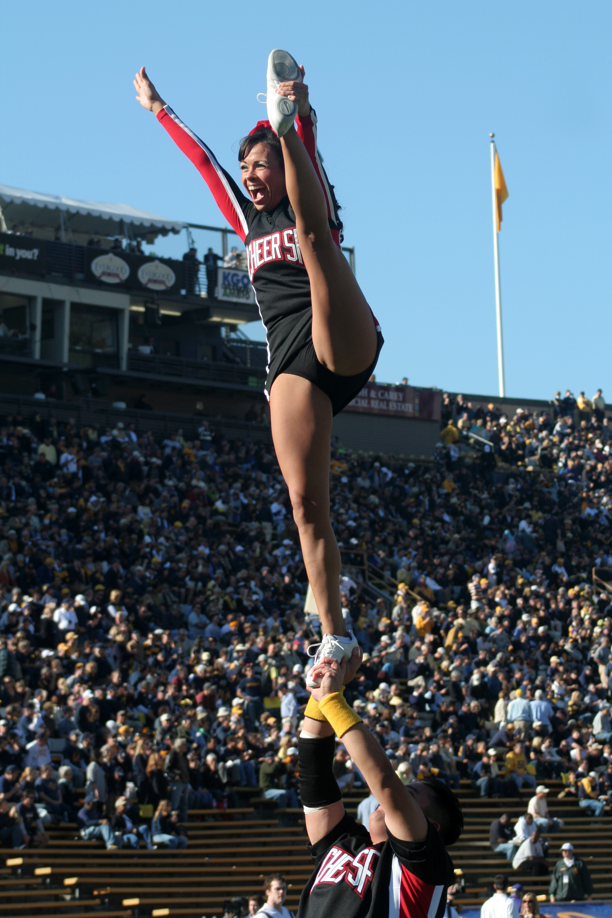 This photograph shows a male cheerleader holding a female cheerleader above his head. The female athlete is performing a heel stretch pose. They are wearing red and black uniforms.